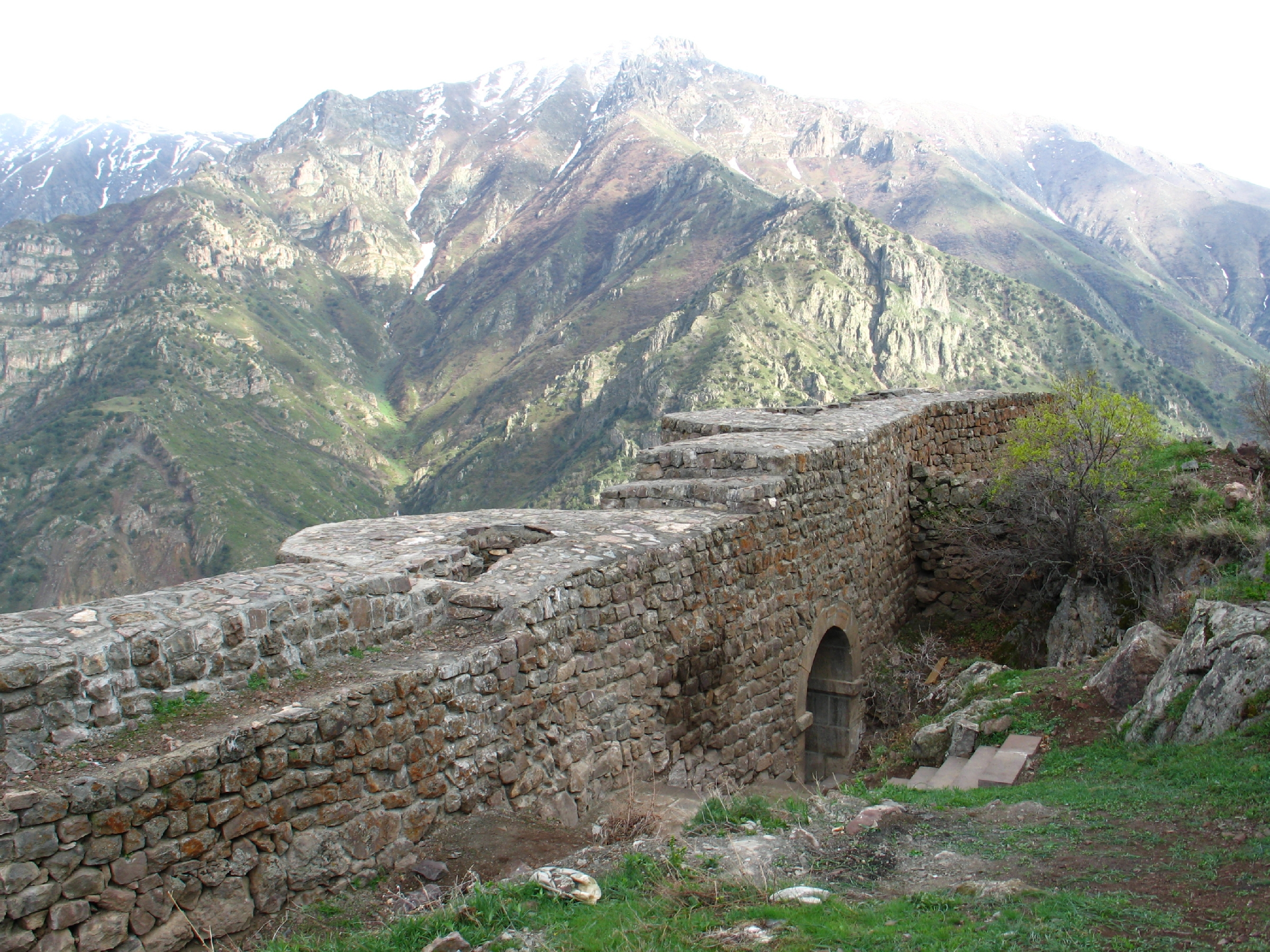 Սմբատաբերդ 10/1